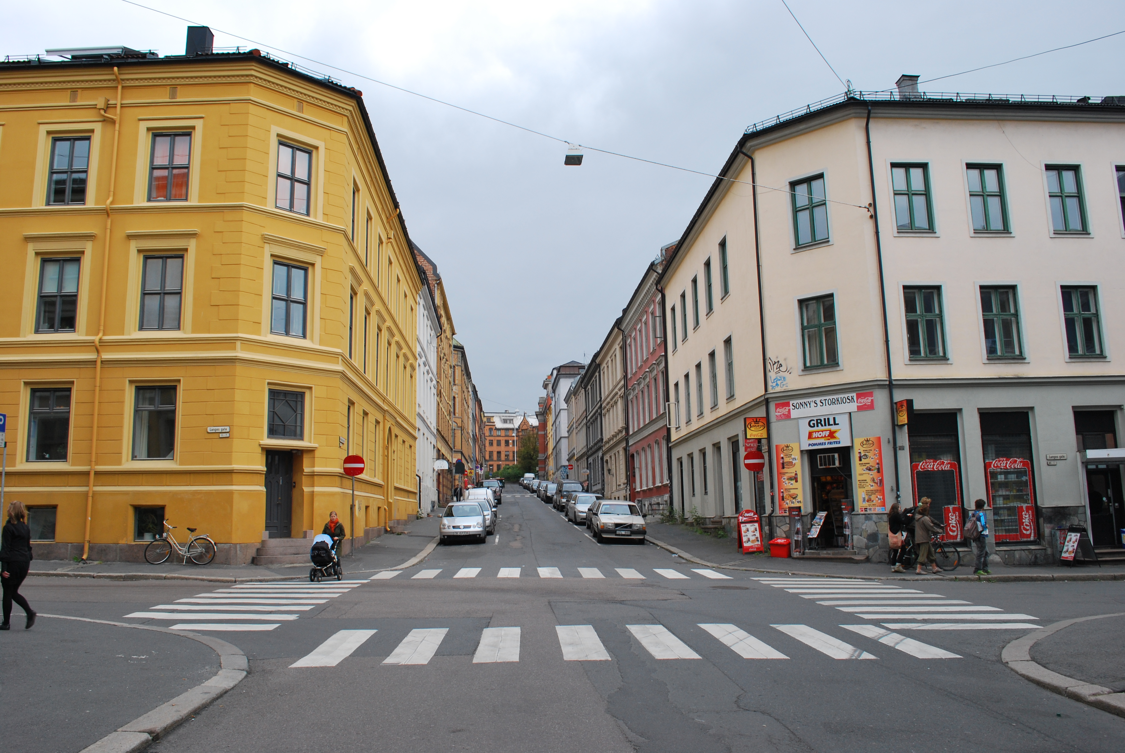 Apartment blocks - 1860' or 1870, Oslo